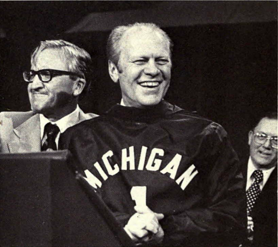 Gerald Ford at the University of Michigan in 1976